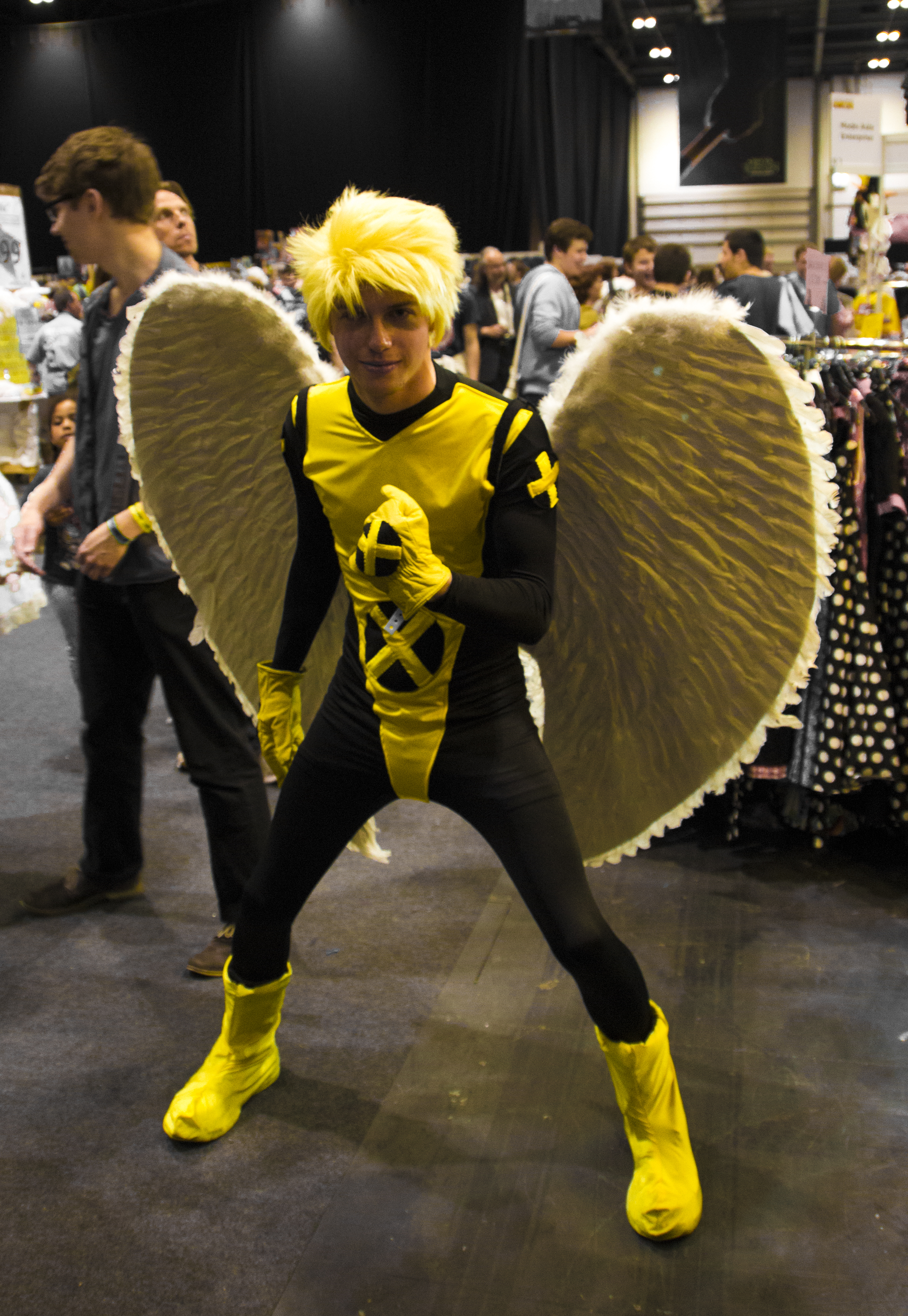 Cosplay at the May 2014 MCM London Comic Con.